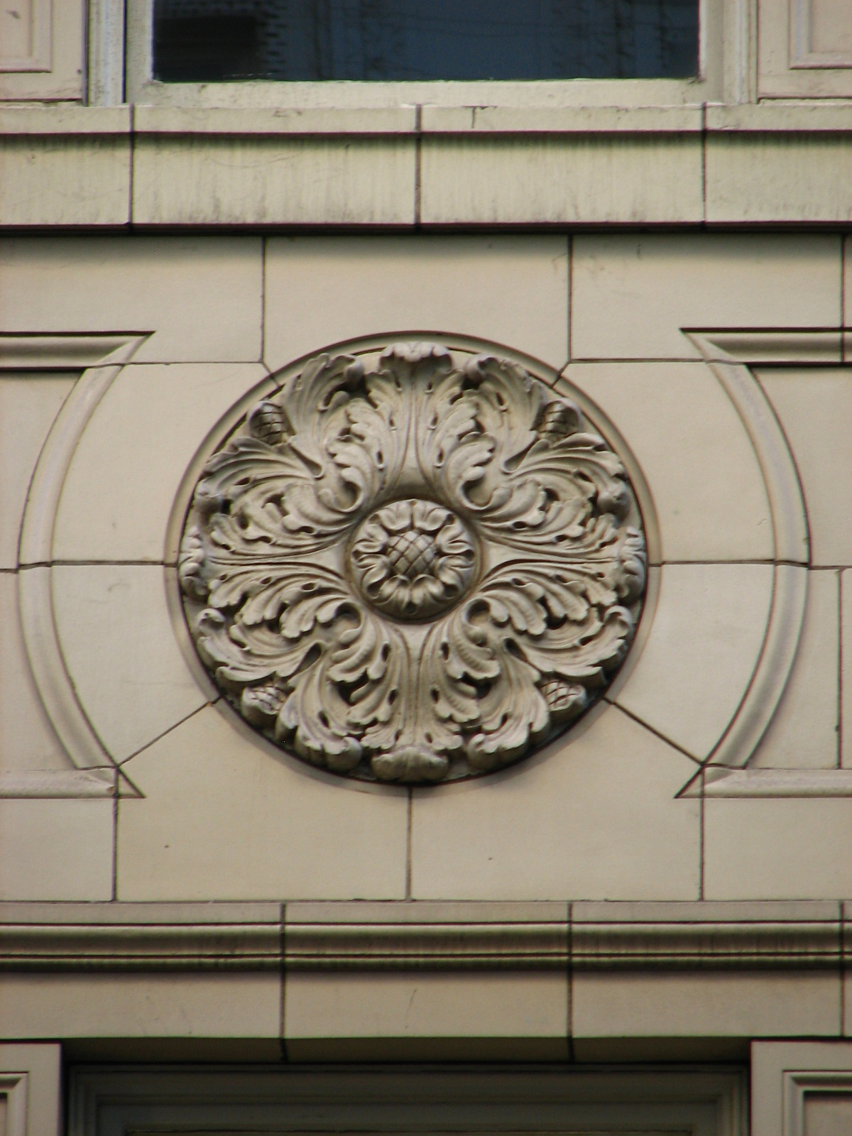 A rosette on the 1928 Kress Building, located at 638 Southwest 5th Avenue in Portland, Oregon, United States; the building is listed on the US National Register of Historic Places.